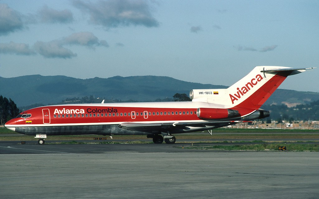 Aircraft Avianca Boeing 727-21 Reg.: HK-1803 MSN: 19035 Line No.: 272 Location & Date Bogota (Santa Fe de Bogota) - El Dorado (BOG / SKBO) Colombia - November 1982